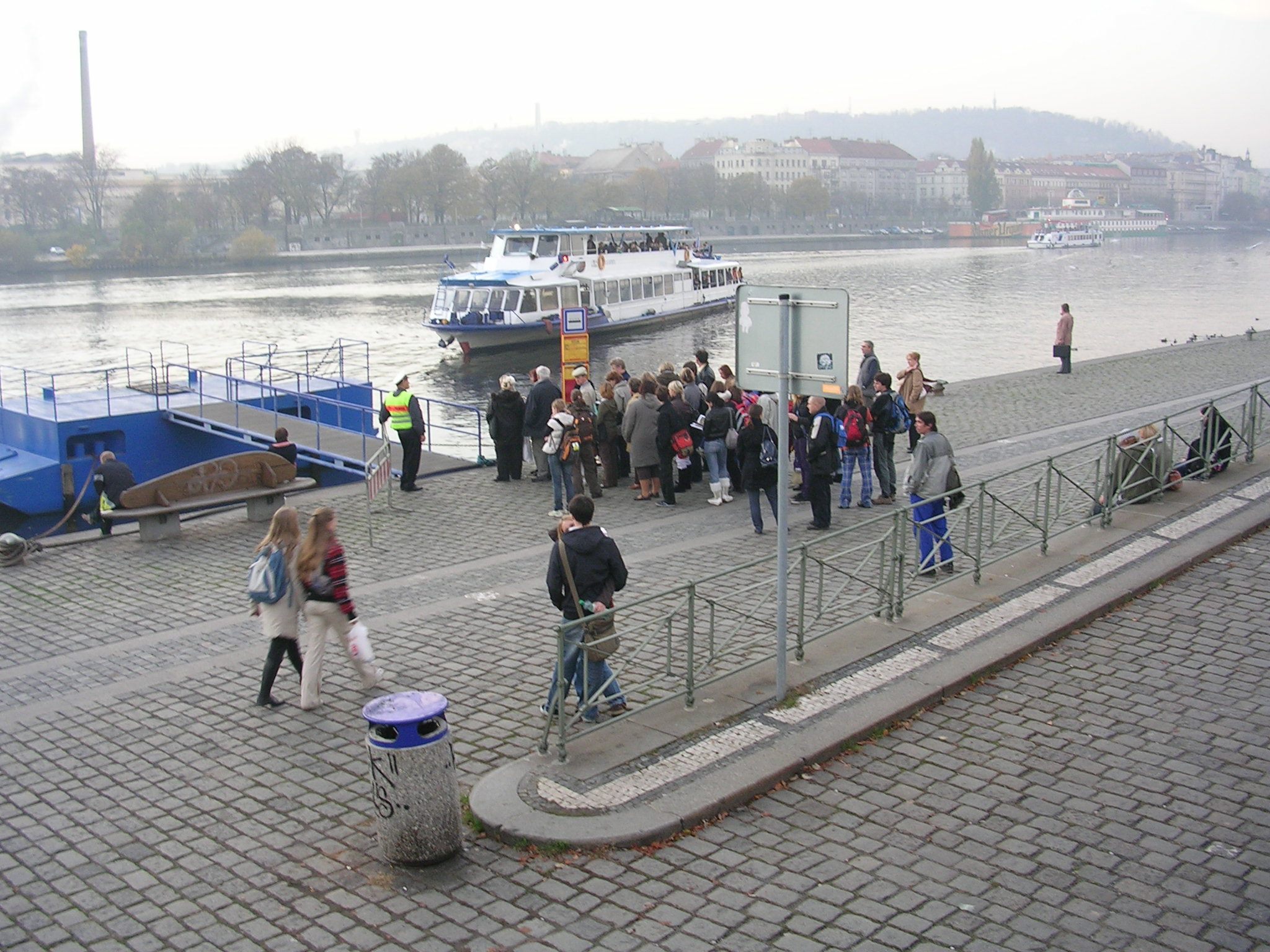 New Town, Prague.